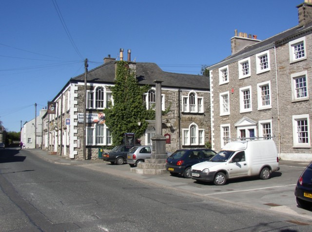 The Square, Burton-in-Kendal. The Market Cross was erected in the 18C. Burton-in-Kendal was granted a corn market by Charles II in 1661, but it did not become important. The cross has a tapering column of dressed limestone on a chamfered base set on three octagonal steps. The south-west face of the second step has indentations said to be remains of leg-irons used as stocks. Behind is a terrace of four early 19C houses, one of which was the post office. Each pair of houses is three windows wide, with two doors under a central pediment. The Royal Hotel was built in the late 18C as a coaching inn, as Burton was a staging post. There is a nice series of Venetian windows facing The Square.